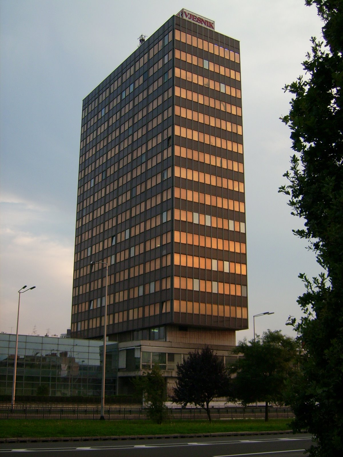 View towards the south-west on the Vjesnik skyscraper.